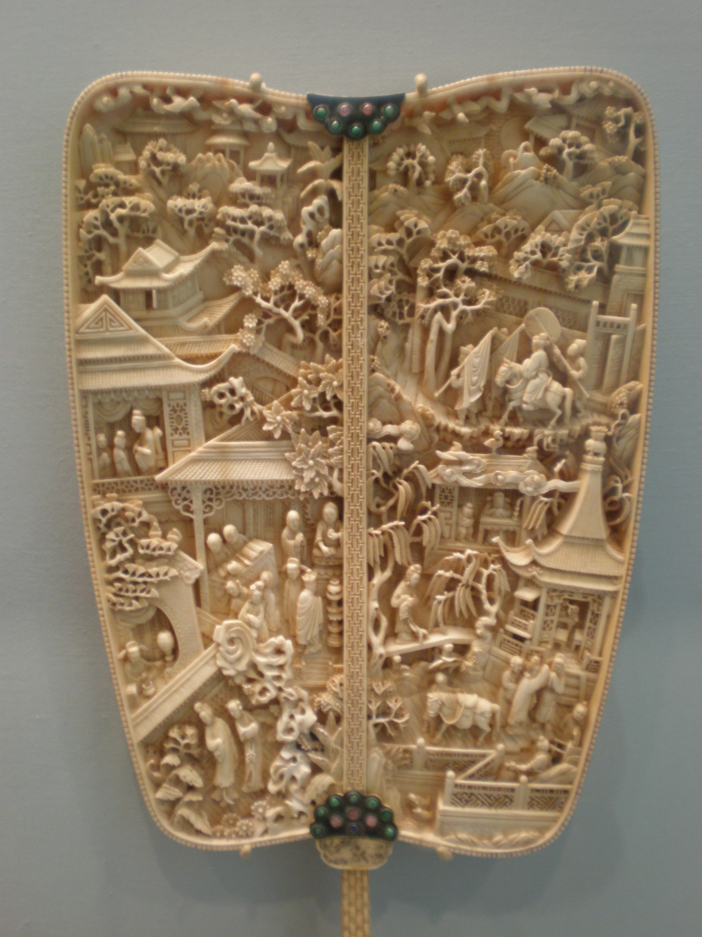 One of a pair of ivory fans depicting scenes from Romance of the Western Chamber, approx. 1800-1911, Qing Dynasty. On display at the Asian Art Museum in San Francisco, California. 1992.93.1 See also File:Romance of the Western Chamber fans Asian Art Museum SF 1992.93.1-2.JPG.